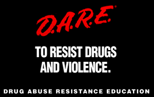 The logo of Drug Abuse Resistance Education (DARE).